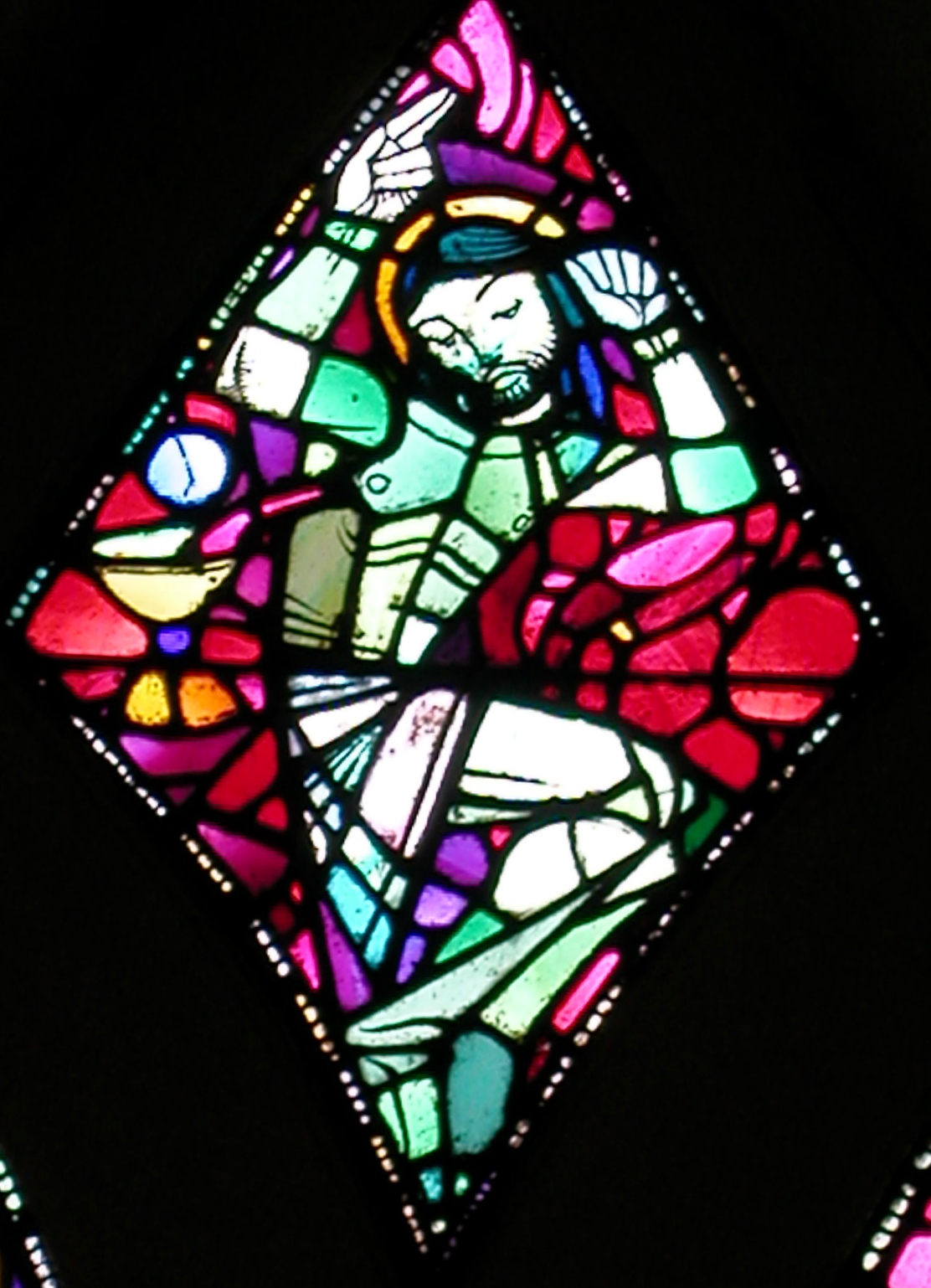 Crucifix Stained Glass Window by Dom Ninian in the Refectory at Pluscarden Abbey